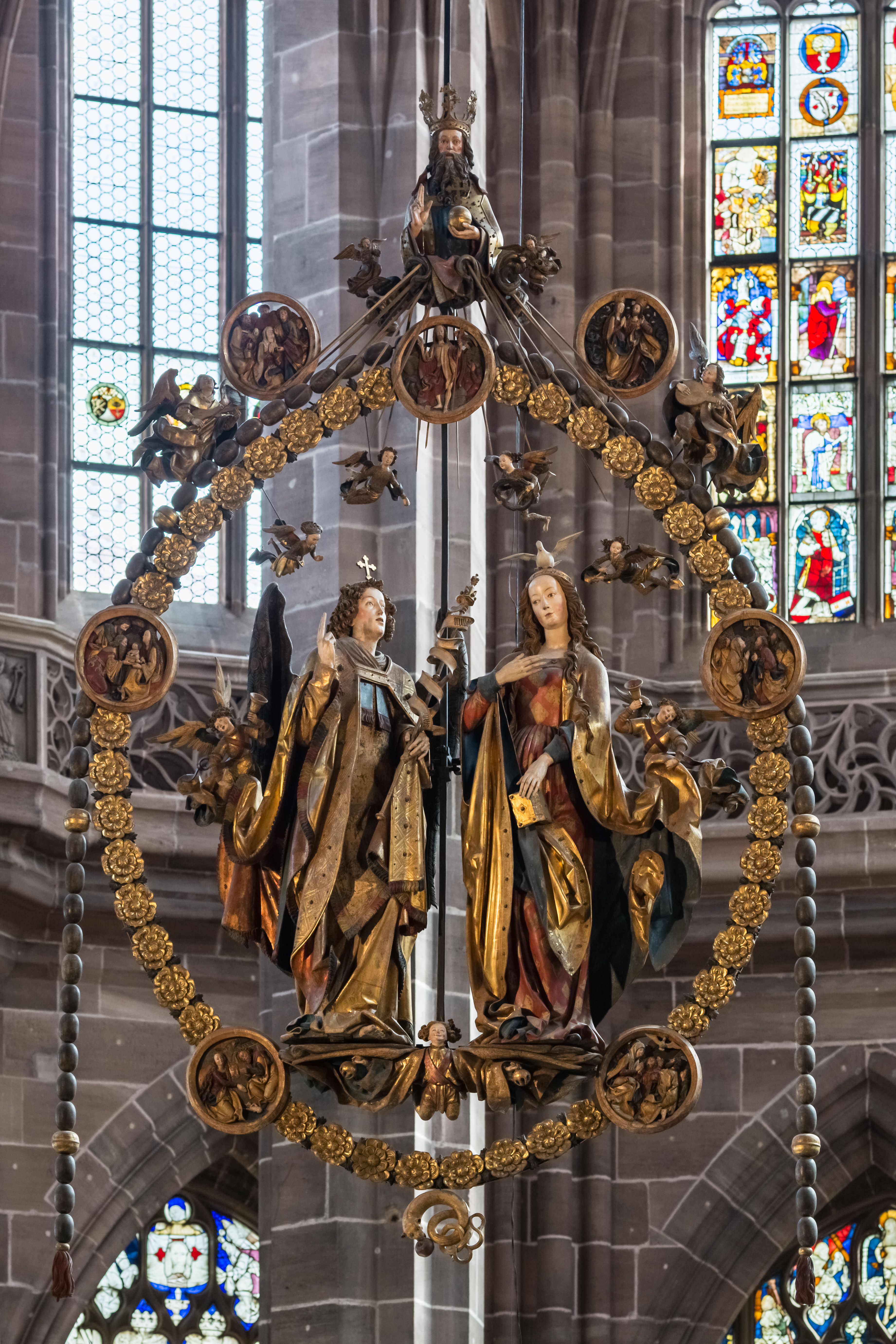 Engelsgruß (Angelic Salutation) at St. Lorenz parish church in Nuremberg, Middle Franconia Bavaria, Germany. Veit Stoß, 1517–18.